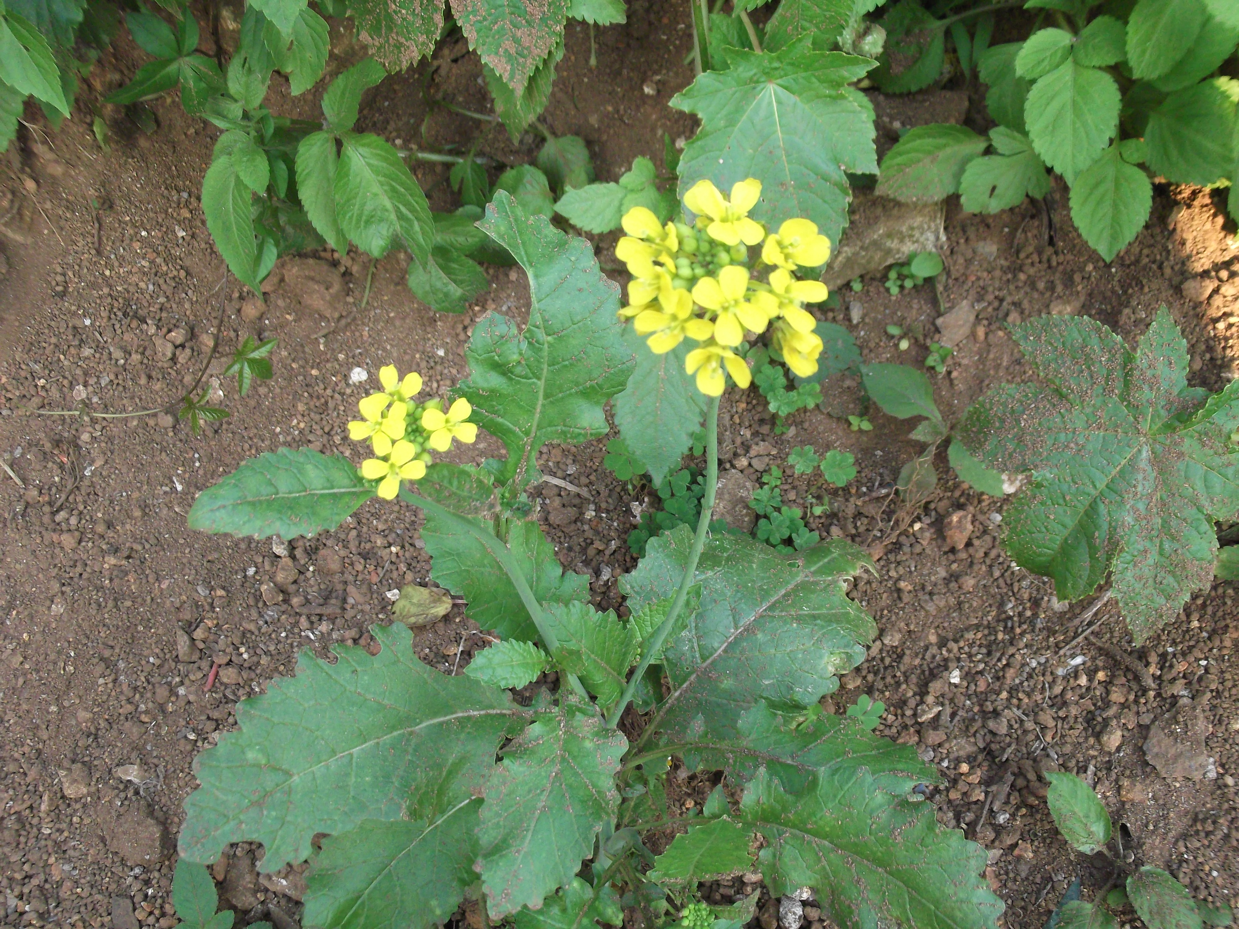 Indian mustard-herb,flowers yellow.